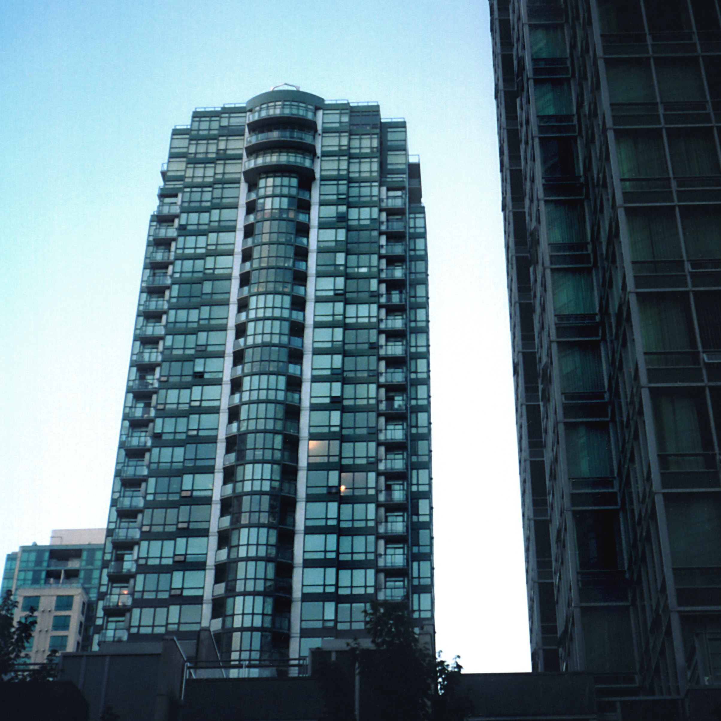 Vancouver condo towers with the characteristic green glass. Building is the "Venus" at 1239 W. Georgia St.